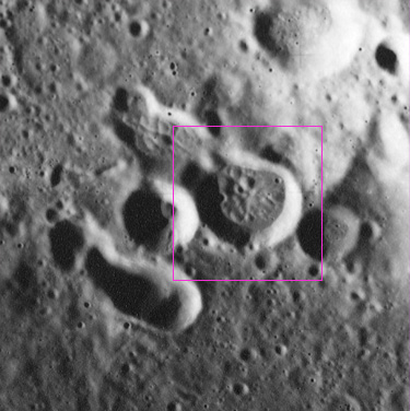 Annotated image based on Apollo frame AS17-M-1702